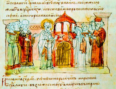 Enthronement of Hilarion of Kiev from Radziwiłł Chronicle